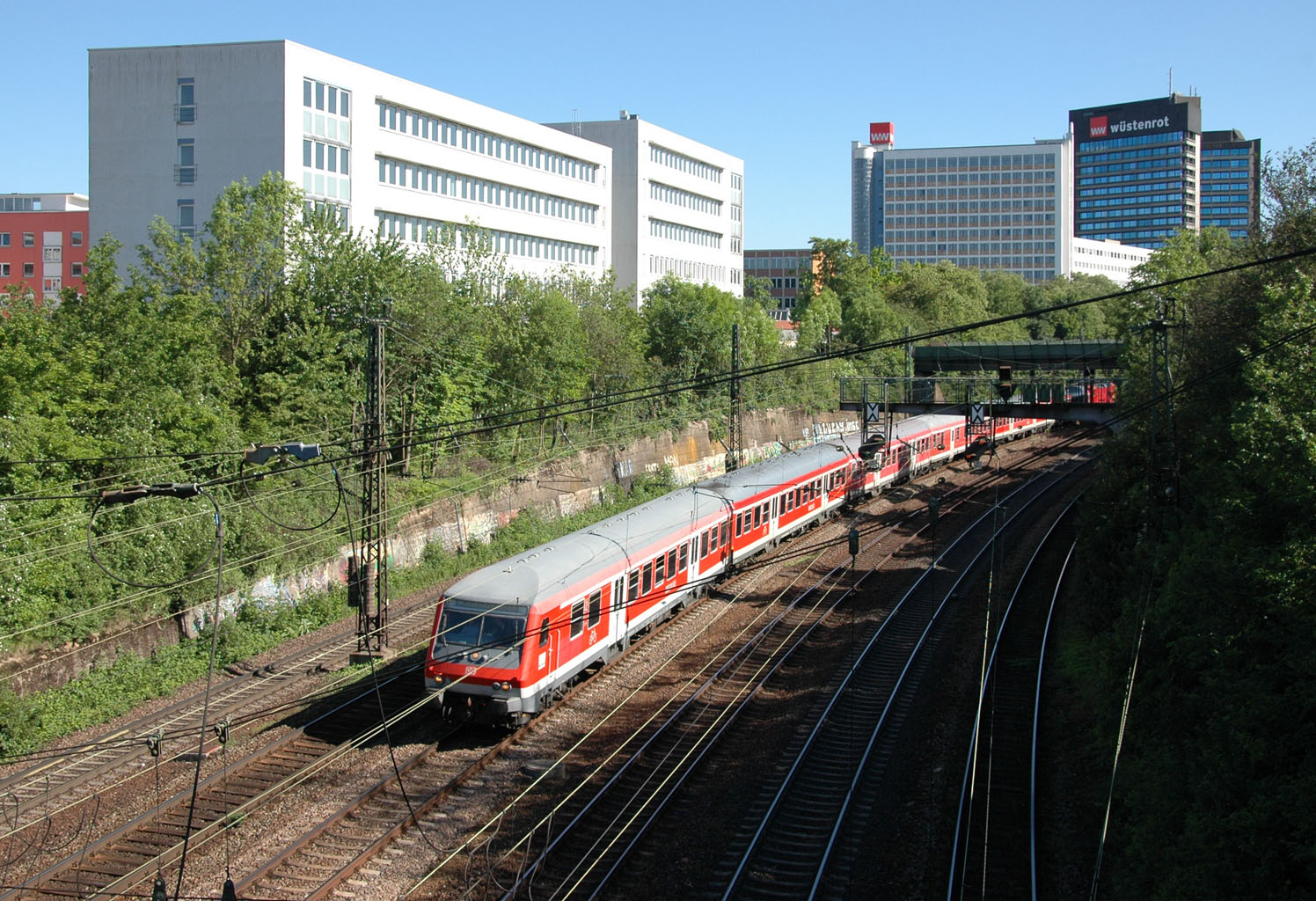 W&W office builing and soutern end of Ludwingsburg train station. train number: RE 4950.